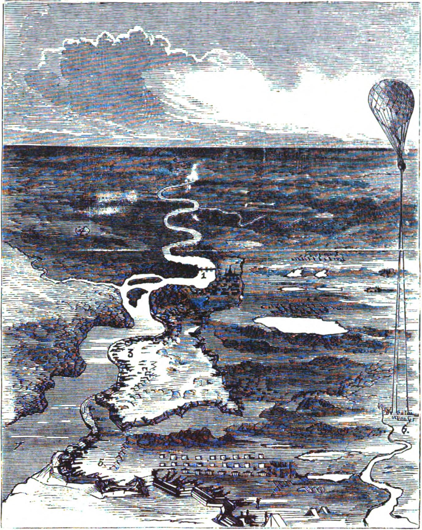 BIRDS-EYE VIEW OF FORT HUMAITA, PARAGUAY (Taken from Allen's Baloon).